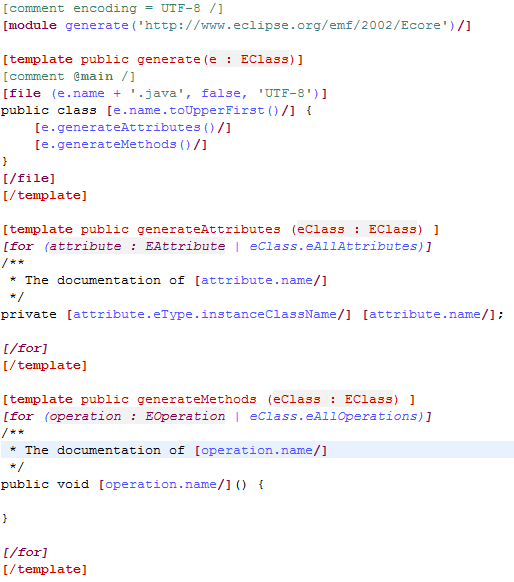 Screenshot of a template from the Open Source project Acceleo. Acceleo is available under the Eclipse Public Licence (EPL)